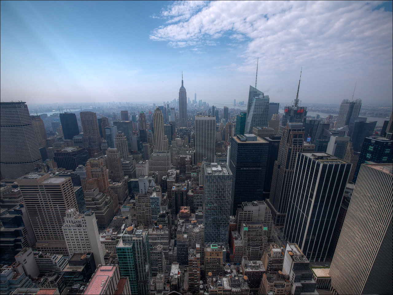 Midtown Manhattan as seen from the Top Of The Rock, April 2014.